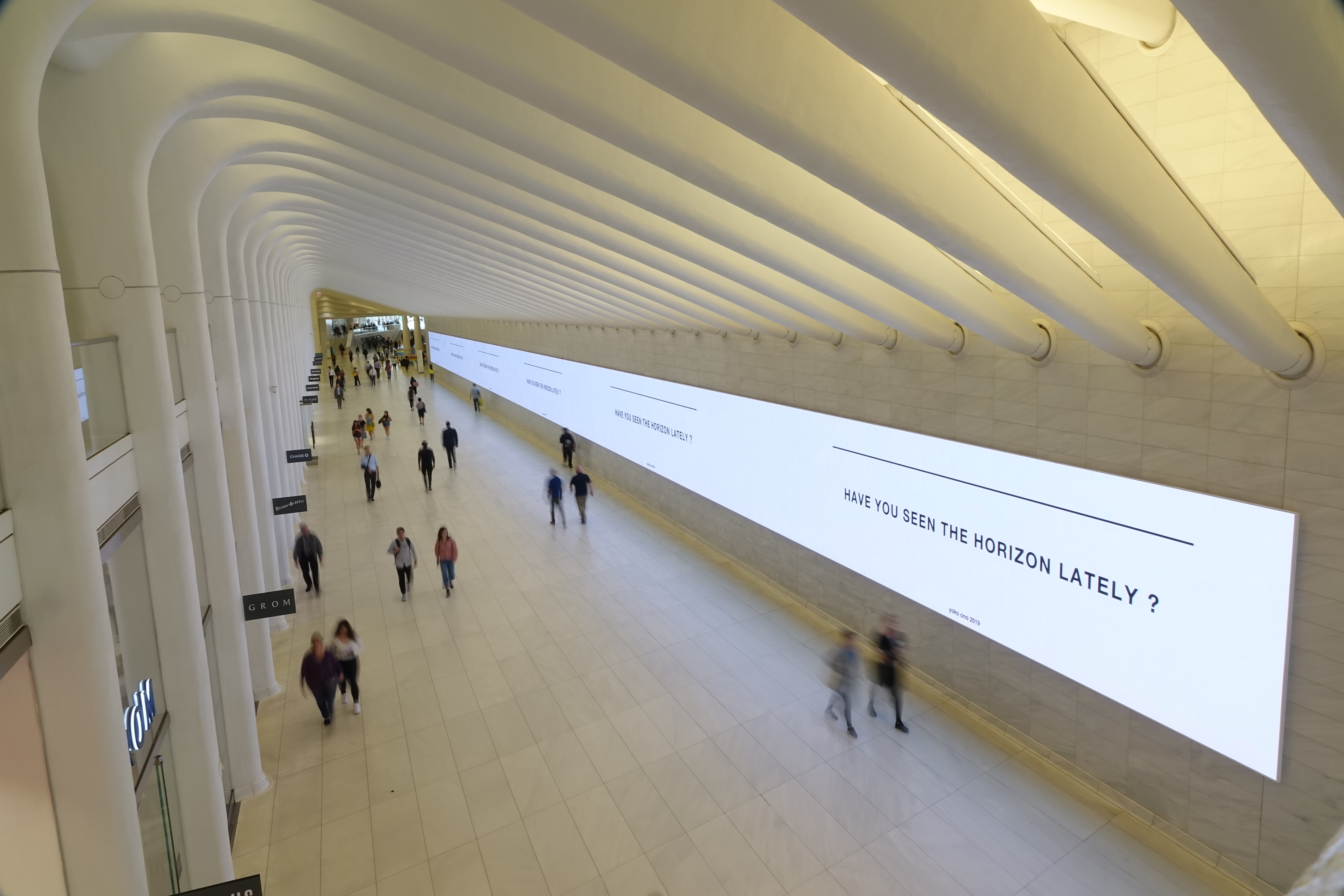 The Reflection Project with Yoko Ono, presented as part of the 2019 River To River Festival